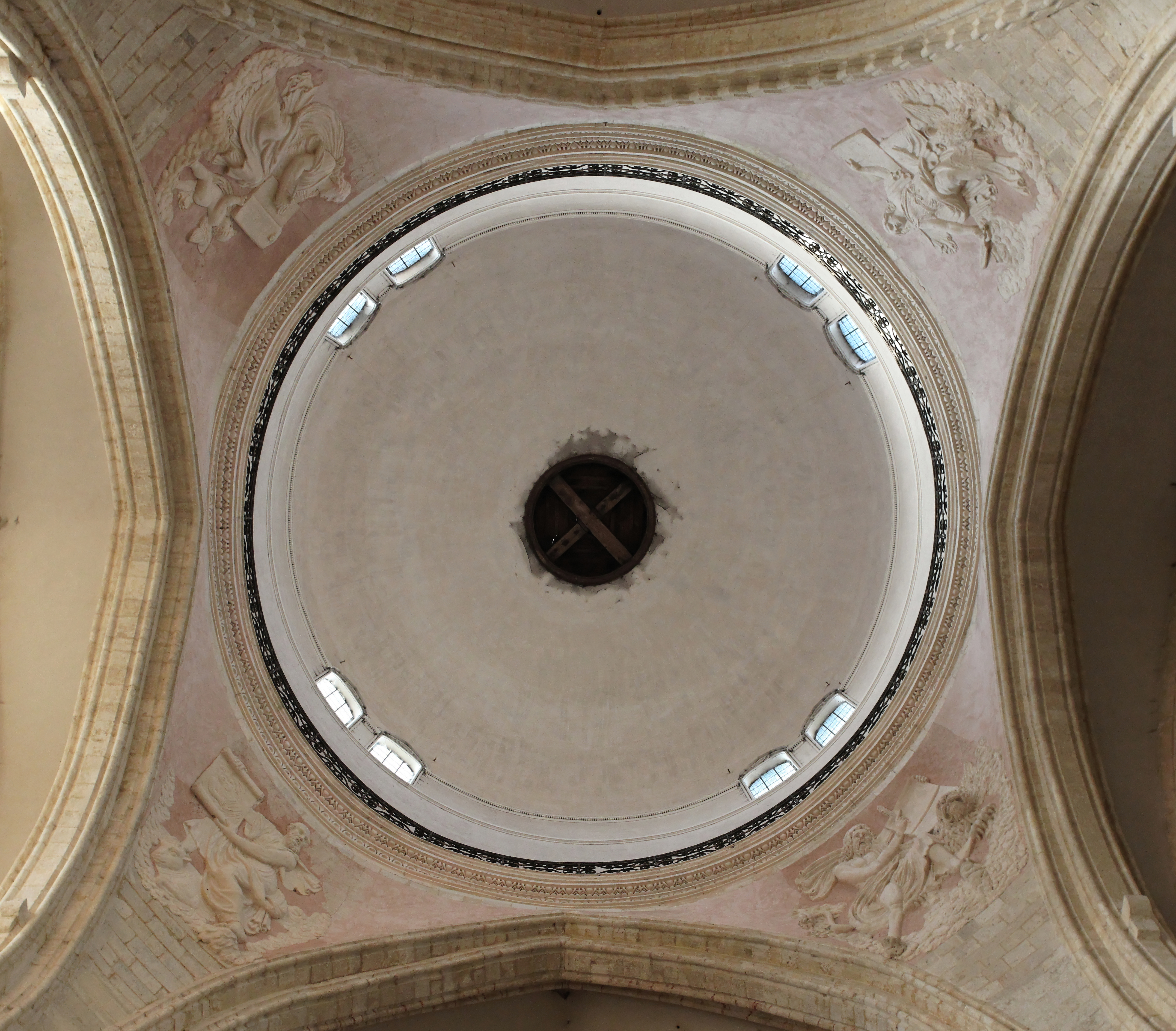 Collegiate Saint-Quiriace of Provins: view of the dome from the ground. Reliefs of the four Evangelists in the pendentives: John and Matthew on the choir side, Mark and Luke on the nave side.